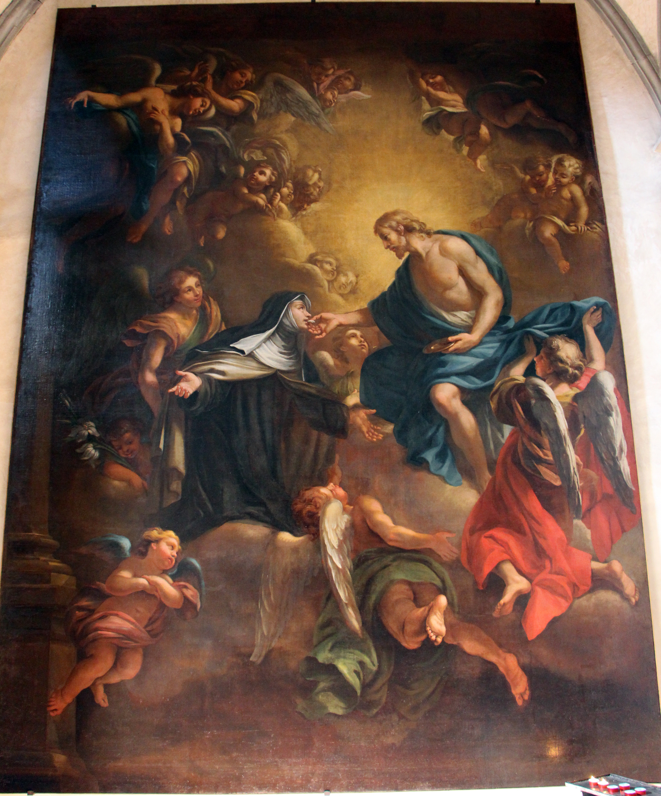 Santa Maria Maddalena de' Pazzi (Florence) - Interior